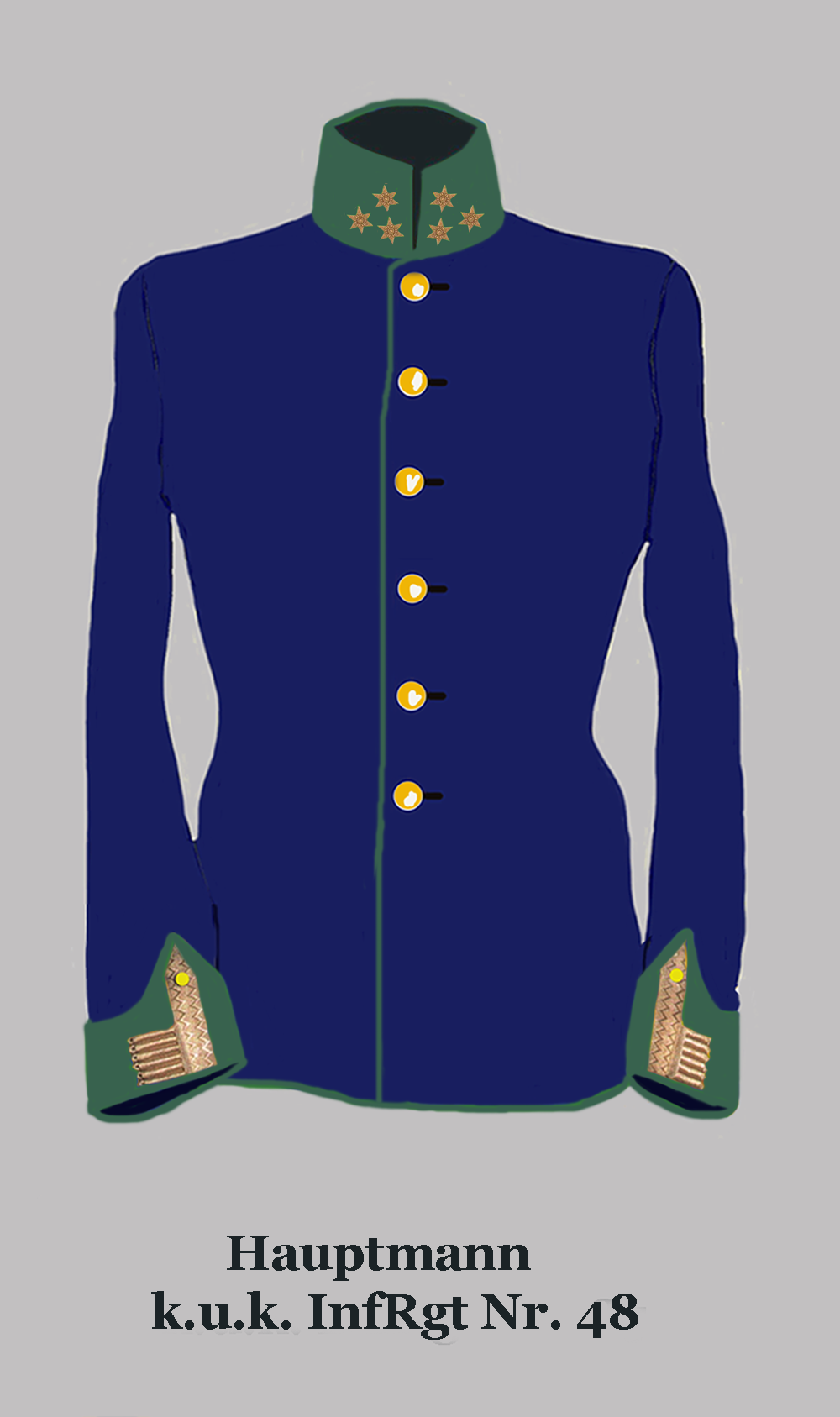 Captain of the k.u.k. hungarian 48th Infantry Regiment (Collar steel-green, buttons yellow)